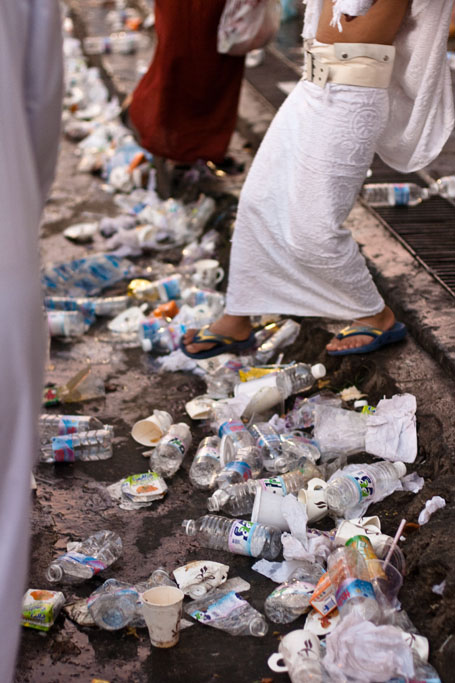 A lot of waste on the streets of Mekka